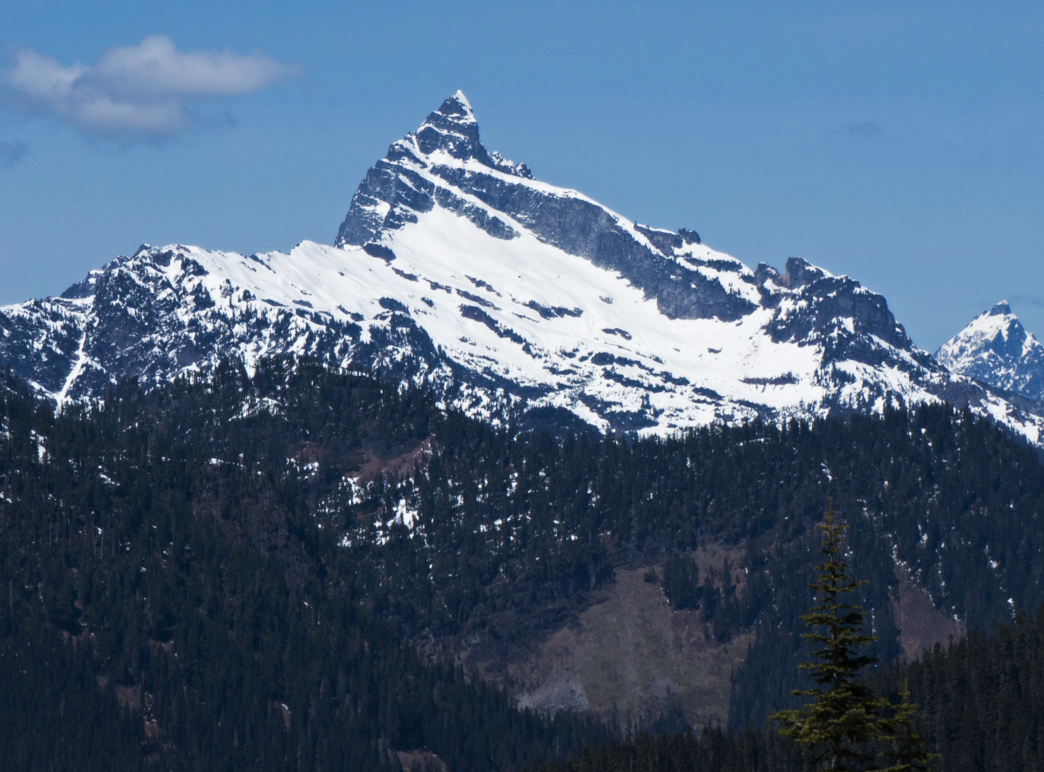 Sloan Peak seen from southeast at West Cady Ridge.